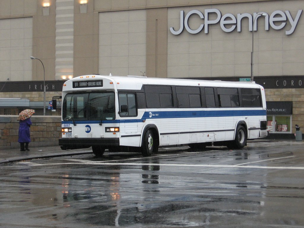 MTA Bus Company MCI Classic #5887 (ex-Green Bus Lines 710) lays over near Queens Center in Elmhurst, NY. This bus was one of the last two non-wheelchair buses to run in regular MTA service.